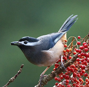 endemic species of Taiwan.